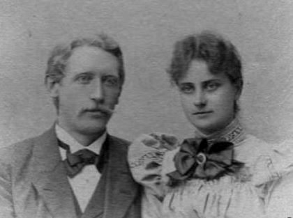 Johanne born Malling-Hansen and Michael Agerskov, receiver and publisher of the book "Vandrer mod Lyset!" - in english, "Toward the Light!". The picture was taken before their marriage in 1899. I have scanned it from the picture collection that belongs to the Malling-Hansen family, and they have given the permission to use the picture without copyright.